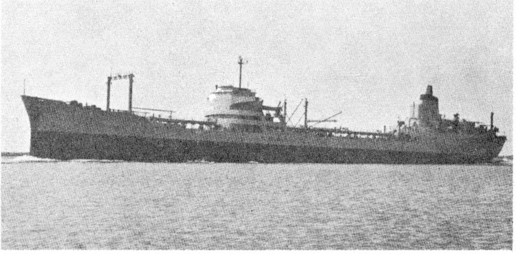 U.S. Navy fleet oiler USNS Shoshone (T-AO-151)